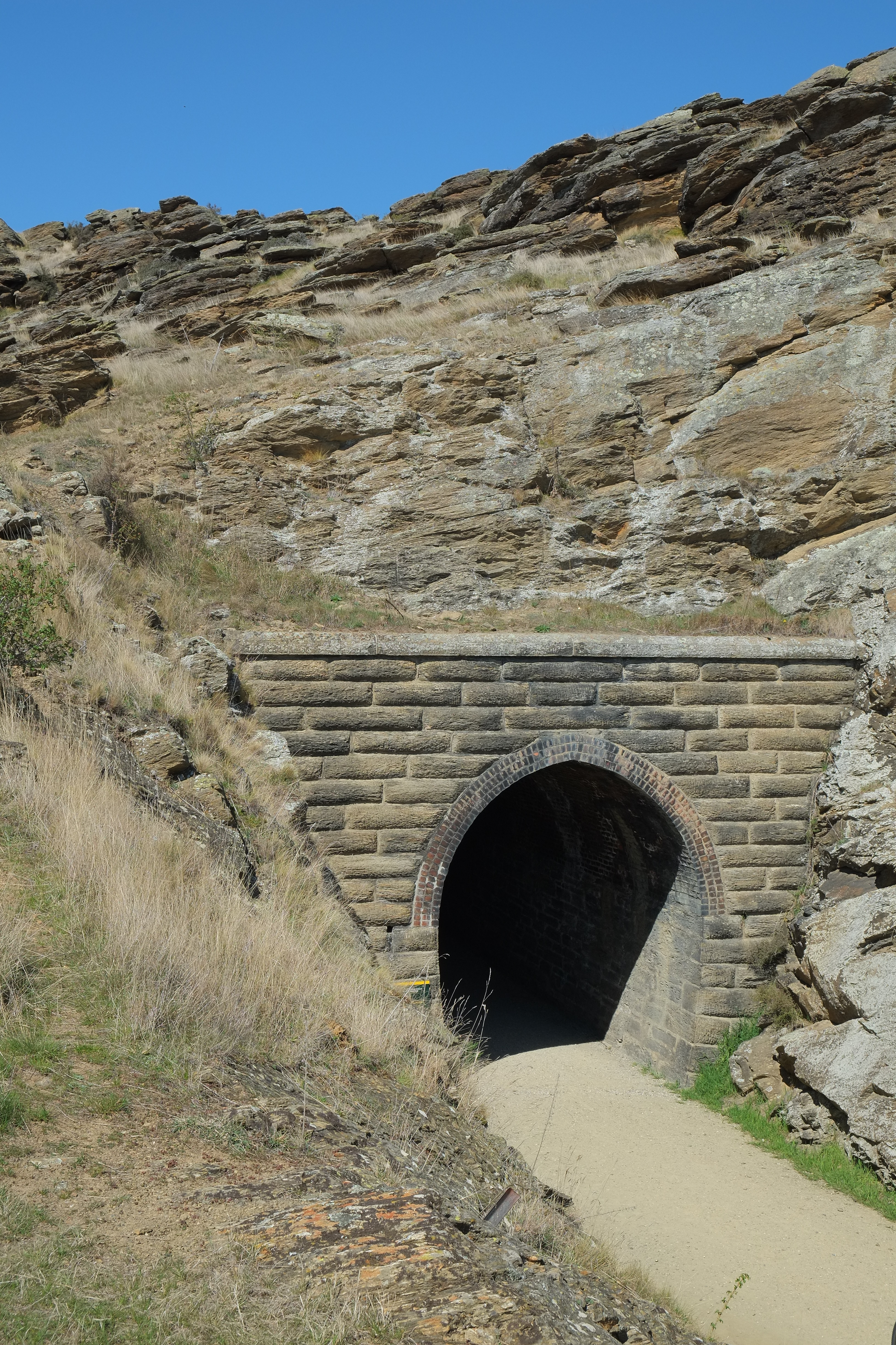 Poolburn tunnel number 2 north entrance (former rail tunnel)